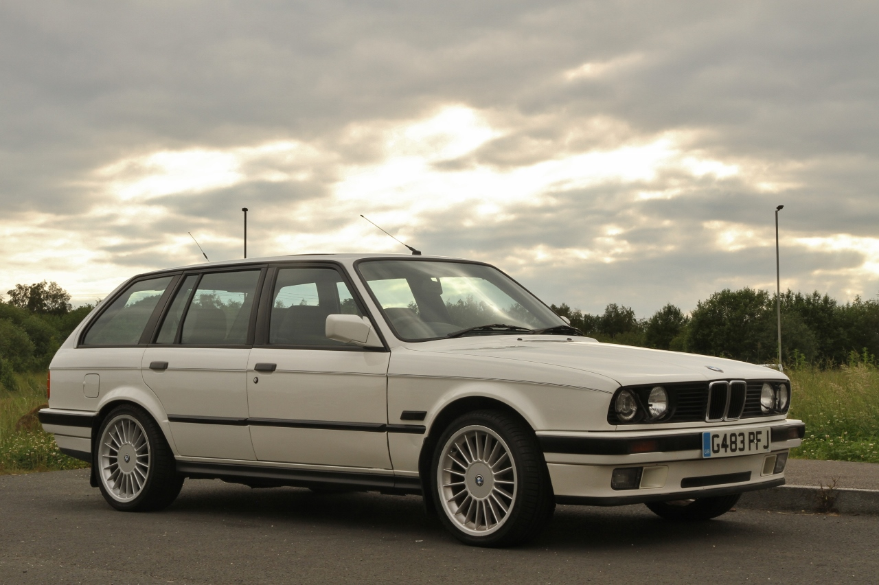 1989 BMW 320i E30 estate outside the Winter Green pub, Catcliffe, South Yorkshire